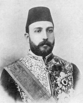 Old photograph of Tewfik Pasha (1852-1892)